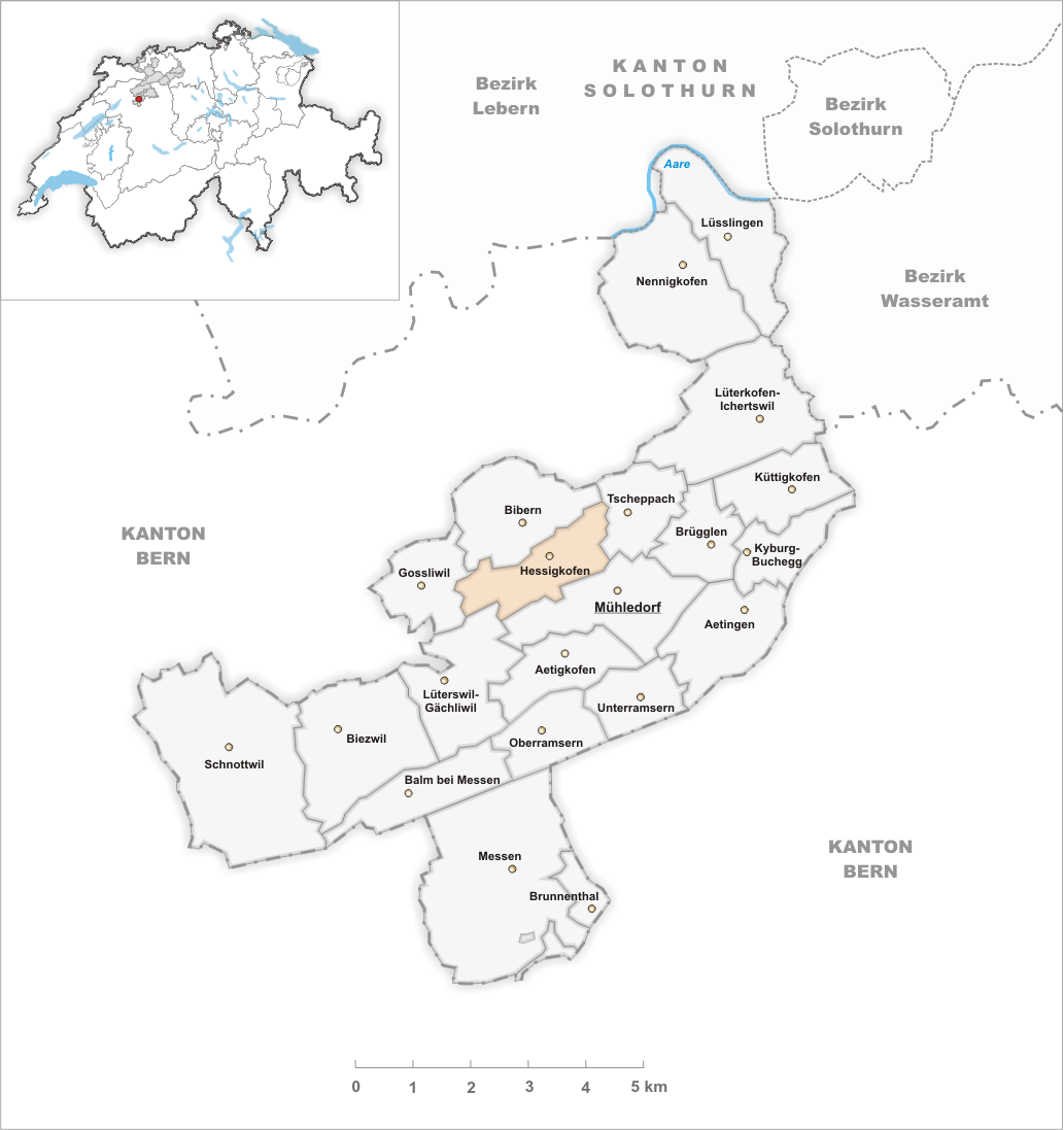 Municipality Hessigkofen